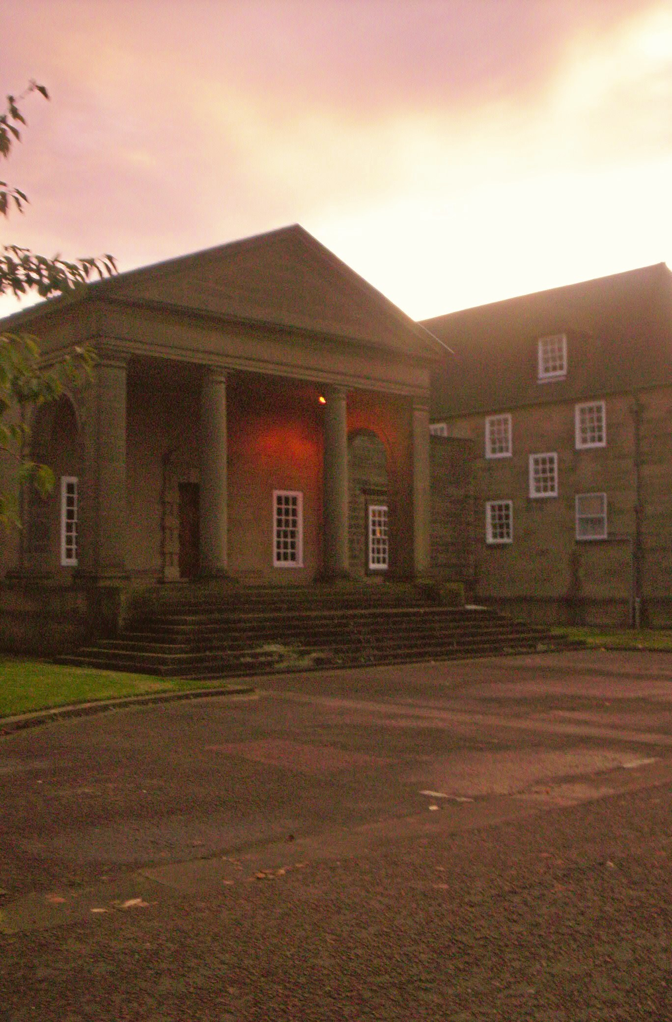 St Mary's College, Durham - Dinning Hall